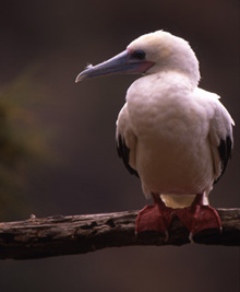 The smallest of all Booby birds, the Red-Footed Booby can be seen year-round on Kilauea Point. Credit: USFWS